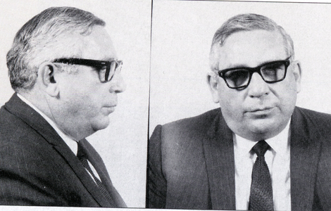 Mugshot of famous US organized crime figure.